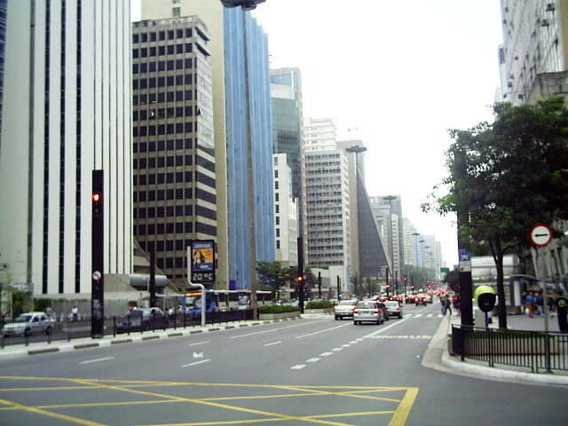 Paulista avenue in São Paulo City.